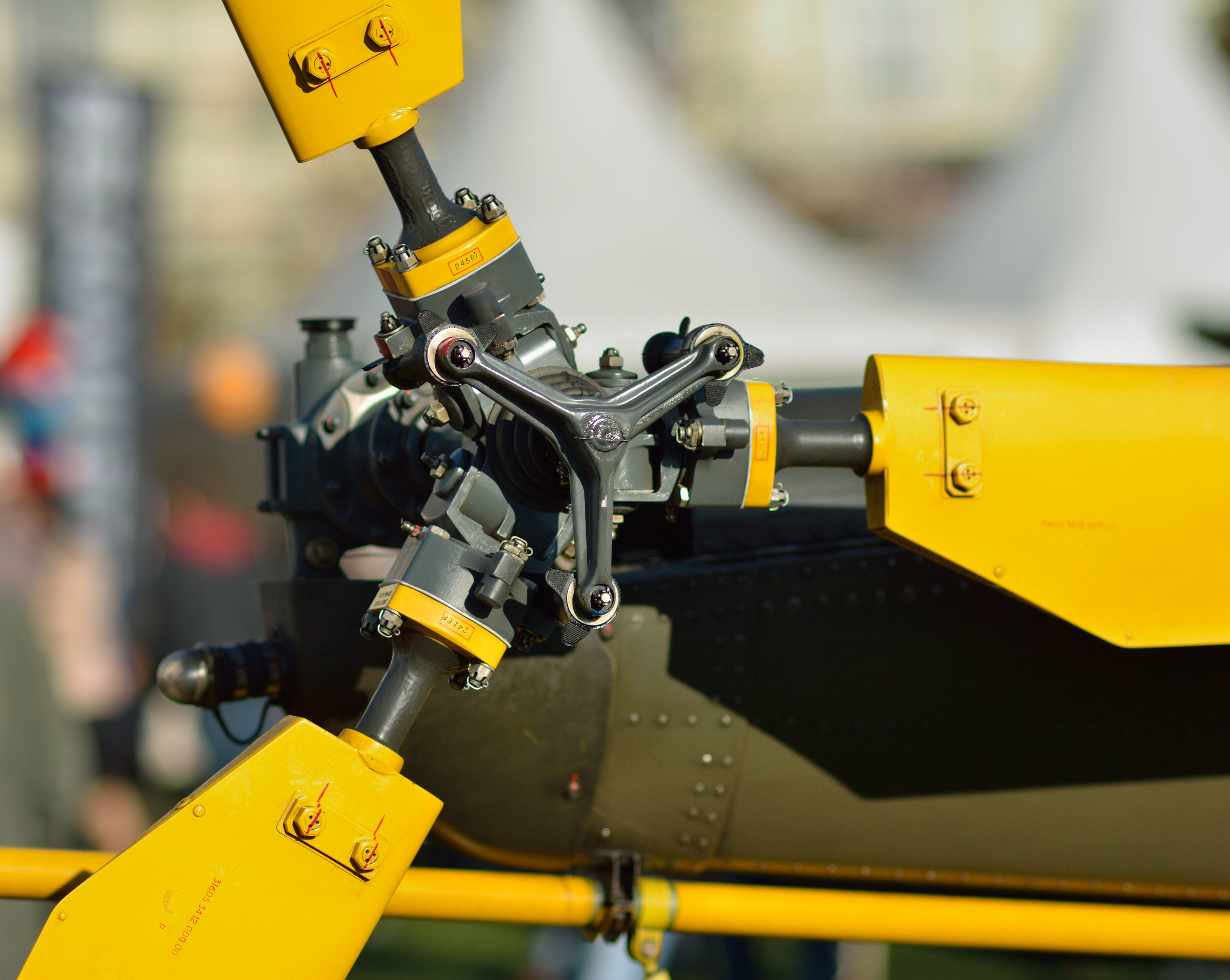 Tail rotor of a Aérospatiale Alouette III from Austrian Air Force